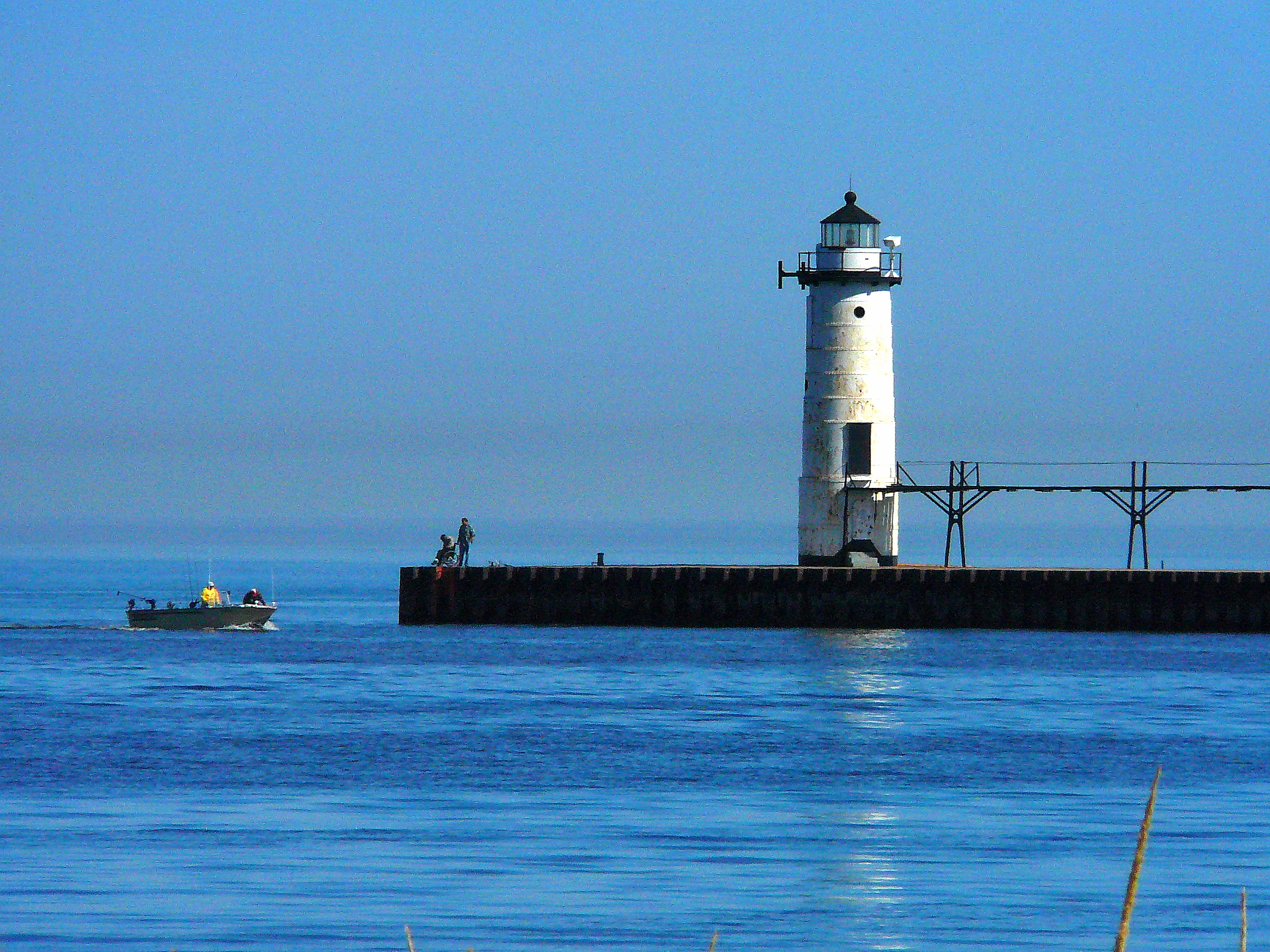 Manistee Pierhead Light at Manistee, Michigan, USA